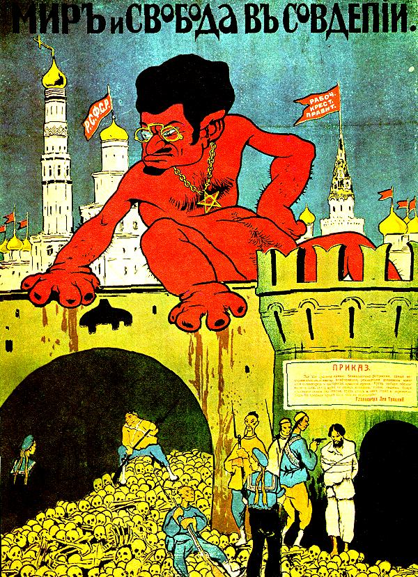 White Army propaganda poster from the Russian Civil War era (1919), depicting a caricature Leon Trotsky (as a large demon like figure with bright red skin.) and Chinese soldiers (below, wearing braids and blue and gold uniforms). There was a notable number of them in the Red Army. They are depicted executing a prisoner and shoveling bones. Texts are in pre-reform Russian orthography. Top: Миръ и свобода въ Совдепiи / "Peace and Freedom in Sovdepiya" Left flag: Р.С.Ф.С.Р / R.S.F.S.R. Right flag: Рабоч. крест. правит. / "Workers' and Peasants' Government" (abbreviated) On the wall: ПРИКАЗ ... Главковерх Лев Троцкий / "Decree ...(illegible)... Signed: Supreme military commander Lev Trotsky" The wall is supposed to be the Kremlin wall (Kutafya Tower, to be precise). Notice also the Red Star (drawn as a pentagram) on Trotsky's neck.